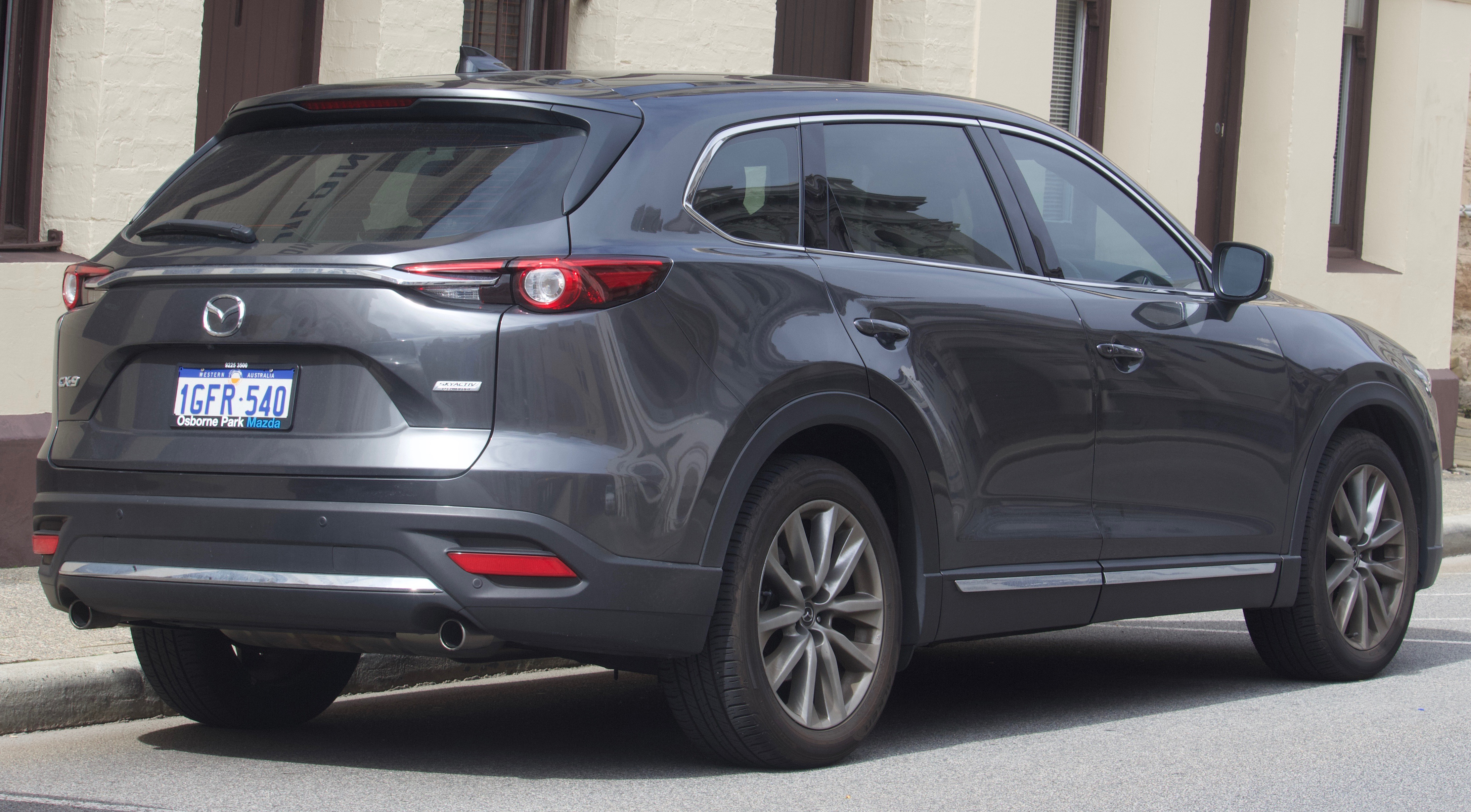 2017 Mazda CX-9 (TC MY17) GT AWD wagon. Photographed in Fremantle, Western Australia, Australia.